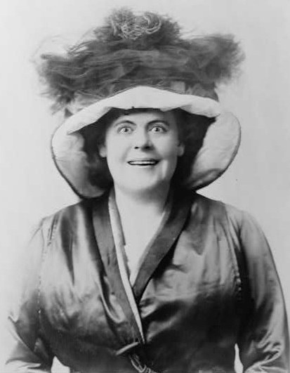 Marie Dressler, head-and-shoulders portrait, facing front, wearing hat